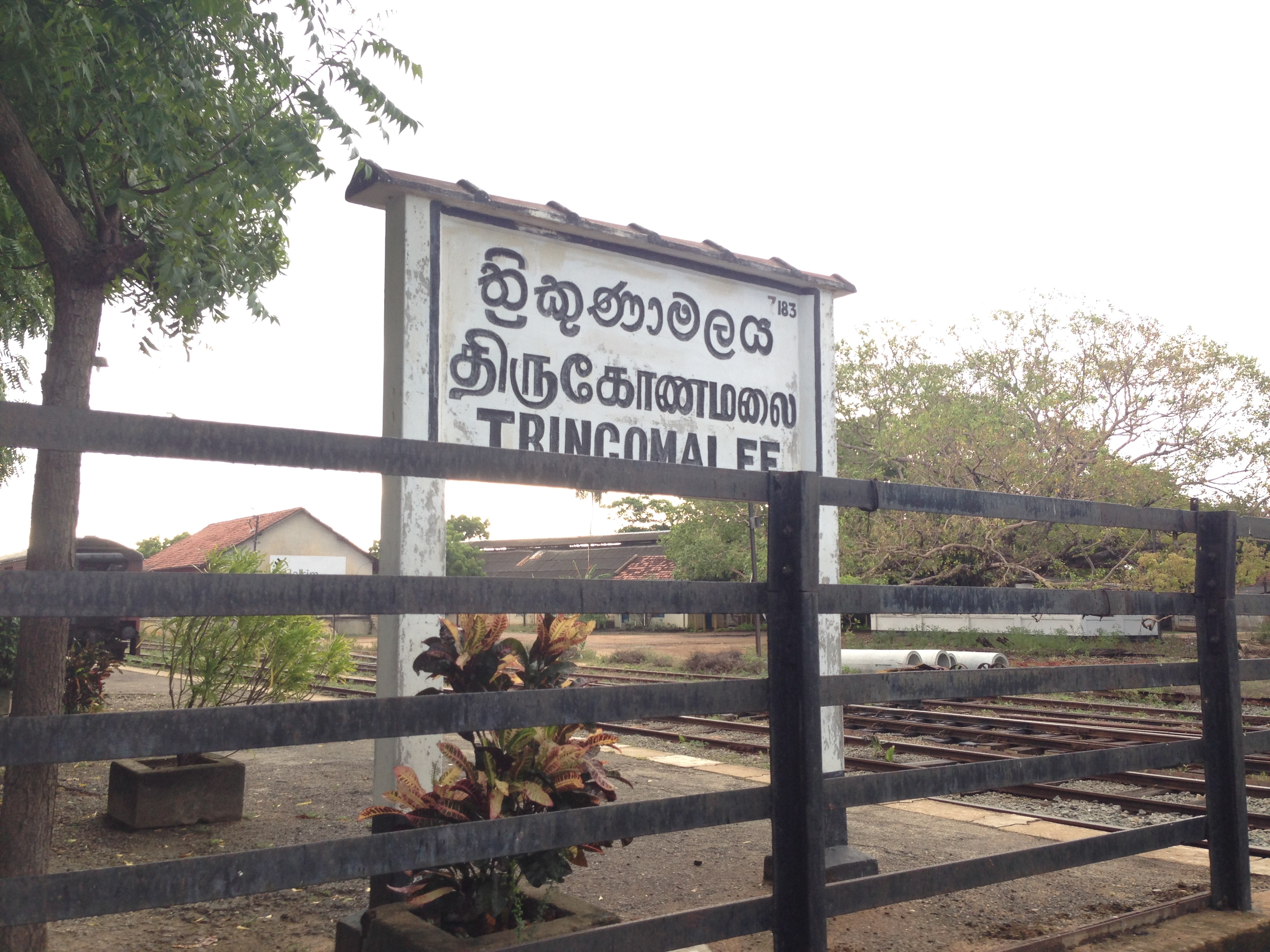 This picture was taken at Trincomalee Railway station